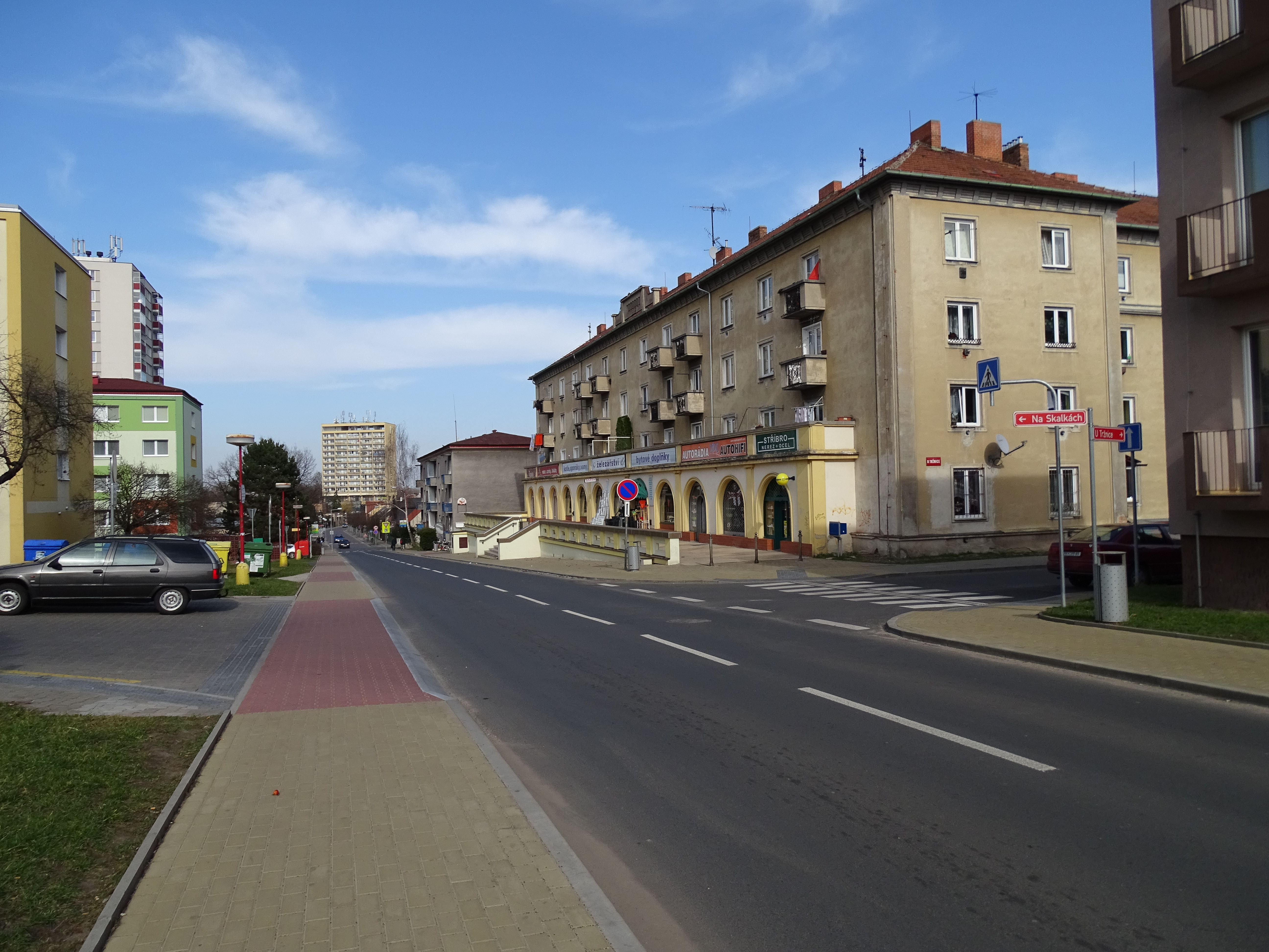 Neratovice, Mělník District, Central Bohemian Region, Czech Republic. 28. října 856.